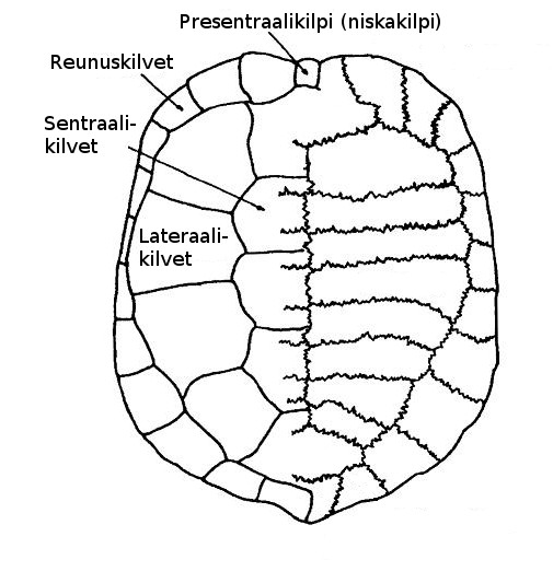 Carapace of Pseudemydura umbrina (Chelidae). Source for the Finnish terms: Palmén, Ernst; Nurminen, Matti, eds. (1974) Eläinten maailma, Otavan iso eläintietosanakirja. 3. Lepakot–Perhoset, Helsinki: Otava, p. 1,114 ISBN: 951-1-01530-3.